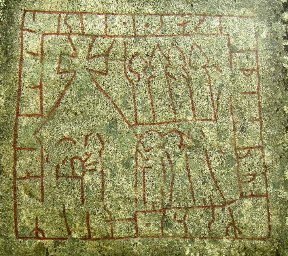 runic stone Upplands runinskrifter U529